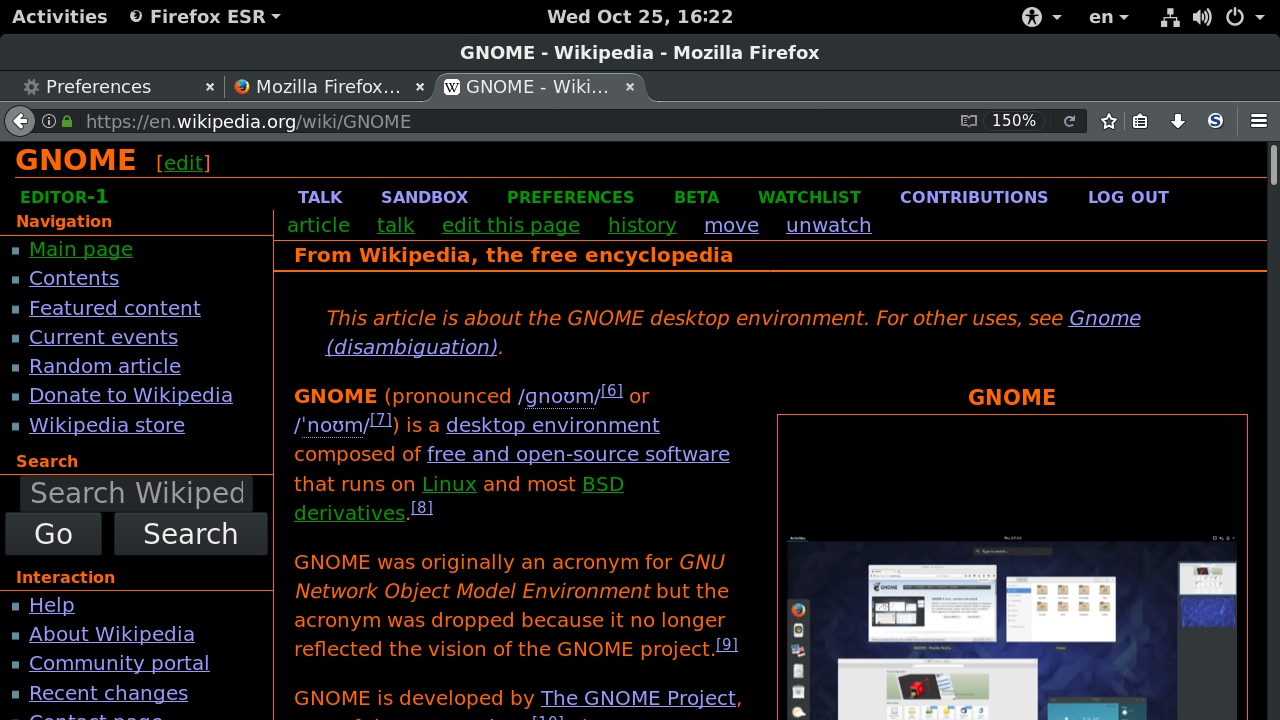 Firefox--customized font colours--The Quake article.